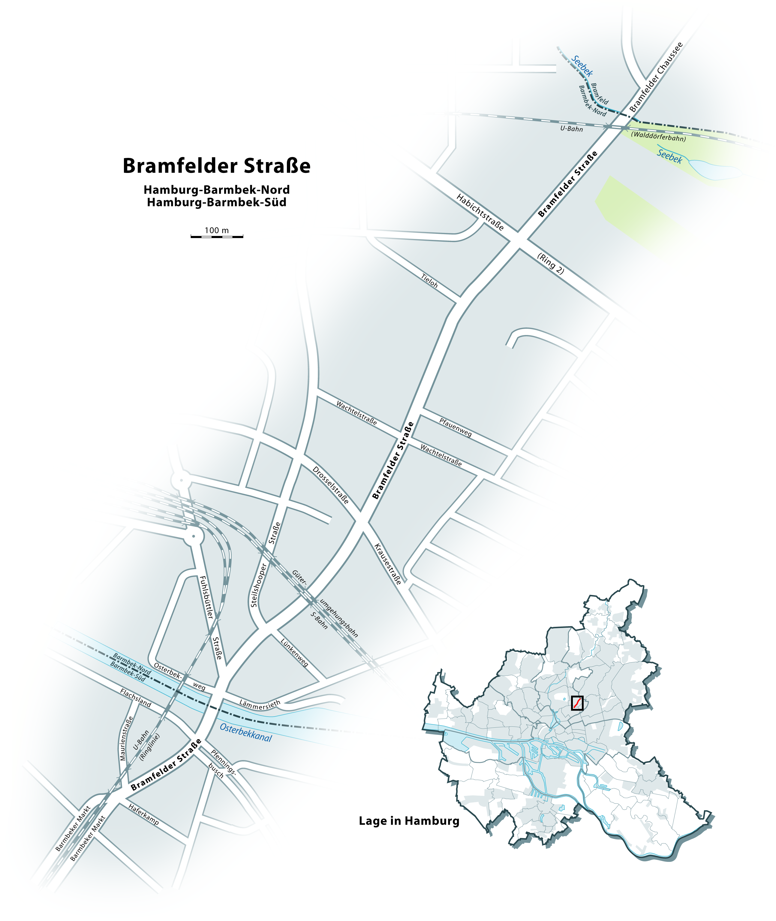 Map of Bramfelder Straße, Hamburg